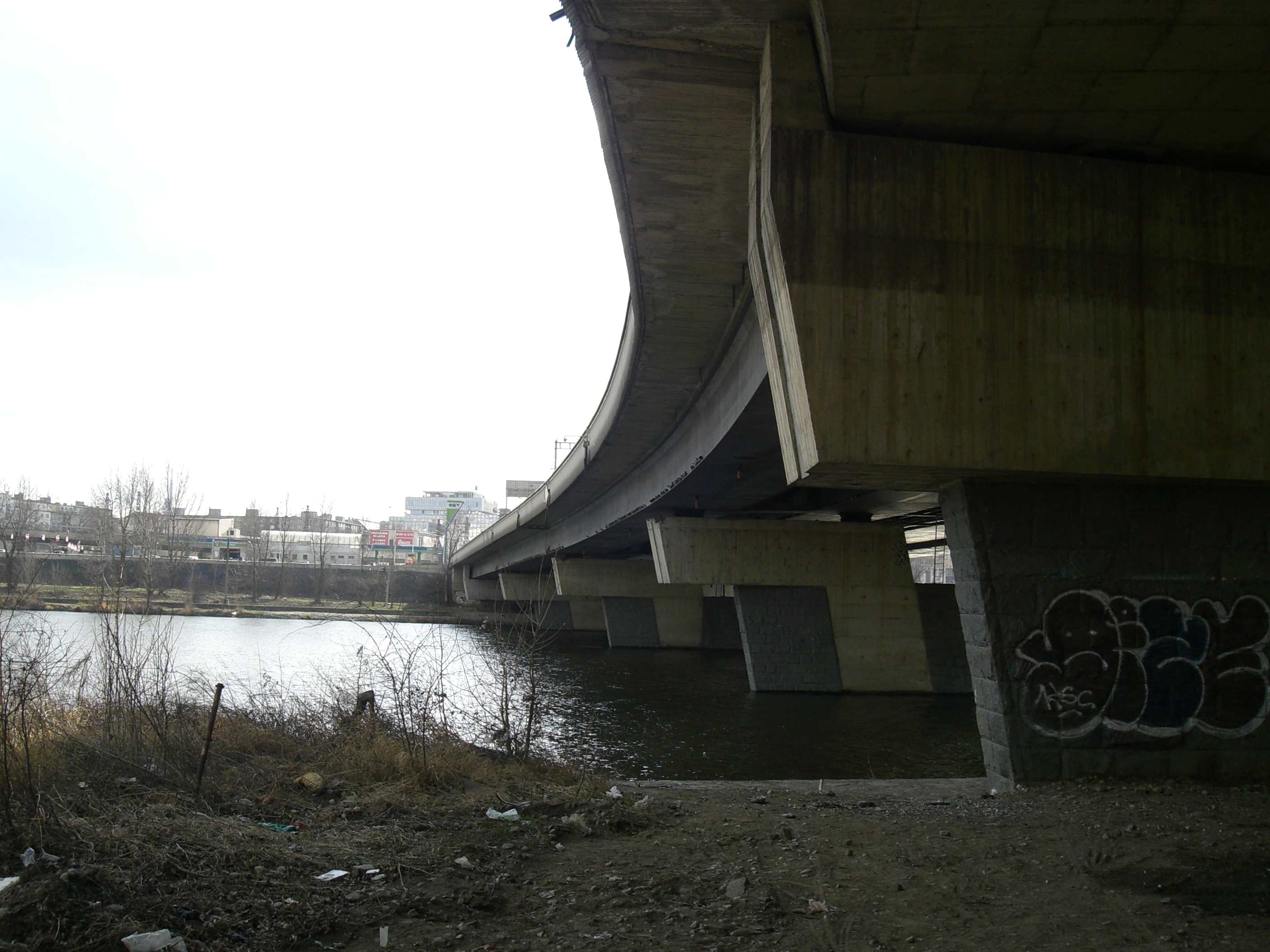 Bridge Barikádníků over Moldau in Prague. 2007-02-22